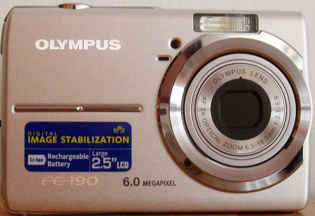 The Olympus FE-190 digital camera